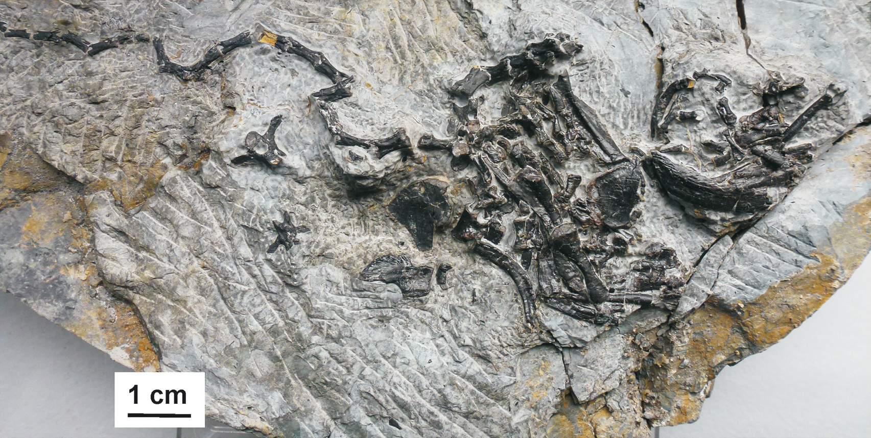 Holotype of Pappochelys rosinae